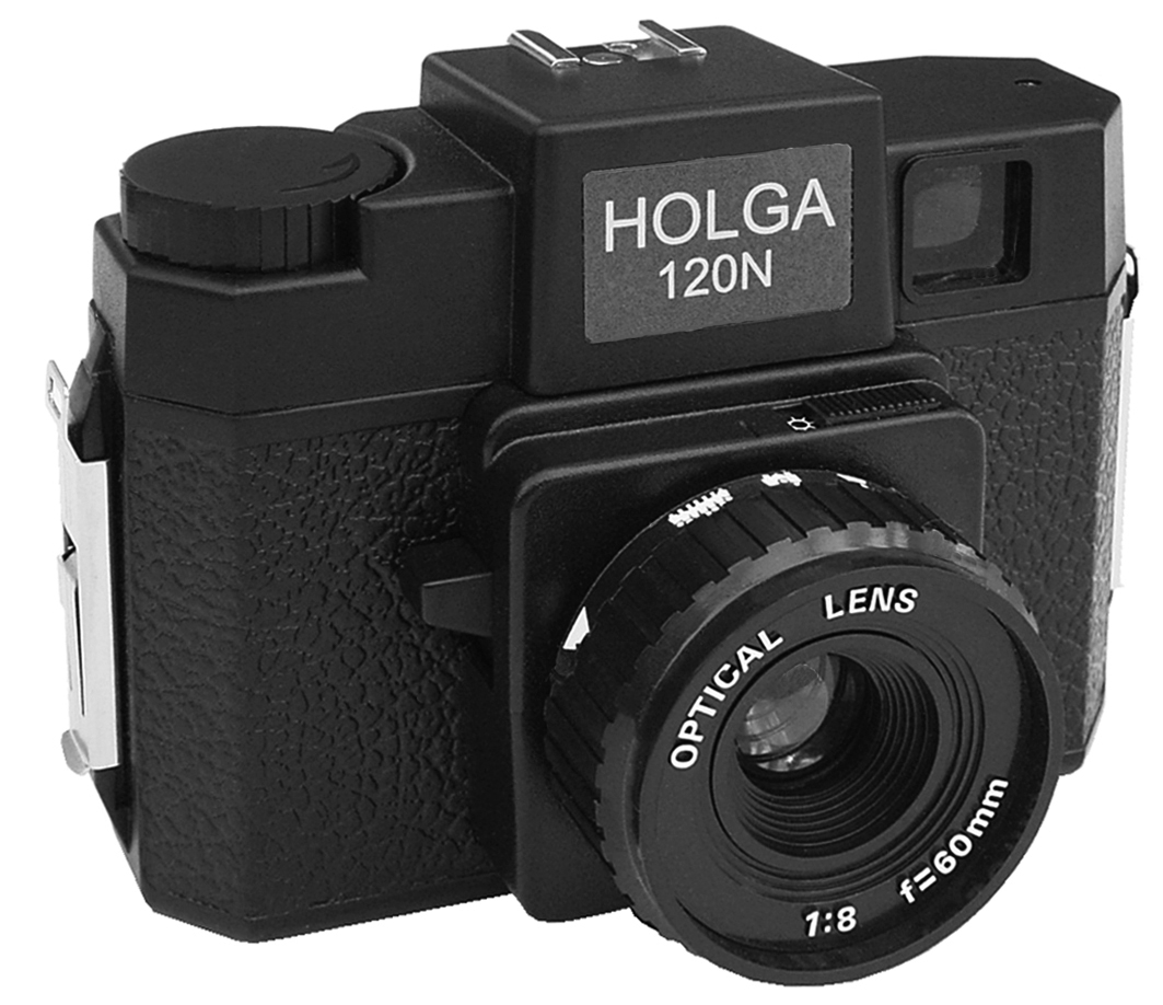 Front picture of a Holga camera